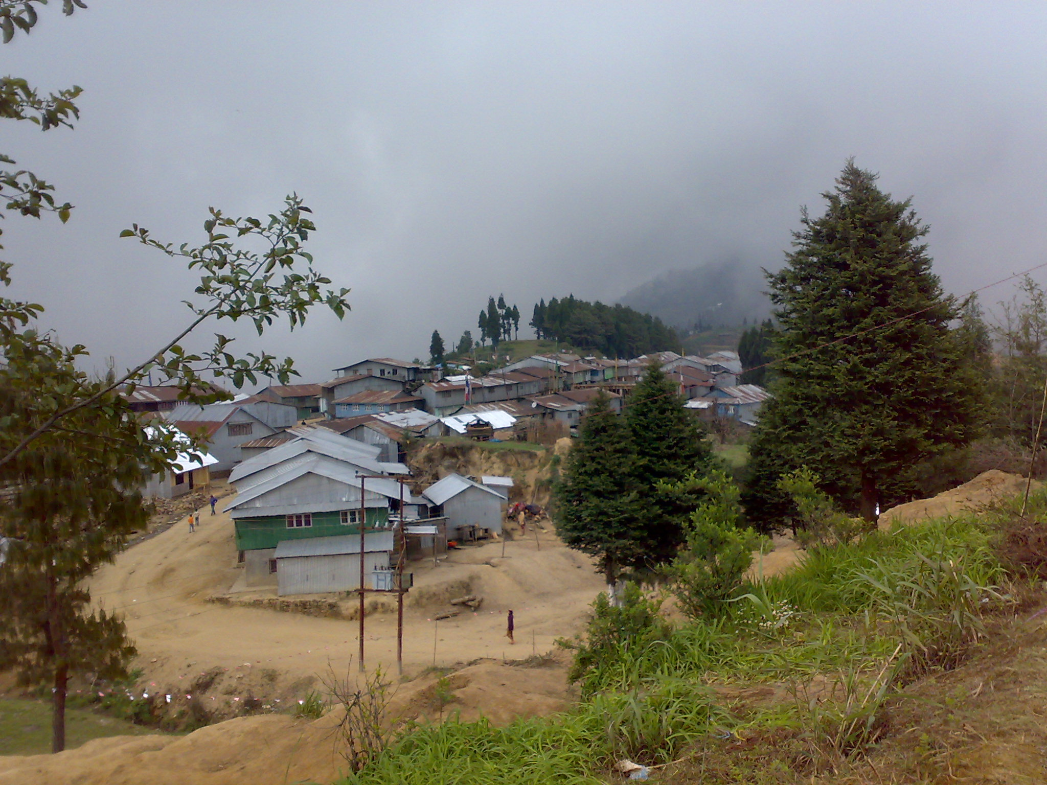 Nayabazar is a small town in eastern Ilam District of Nepal.